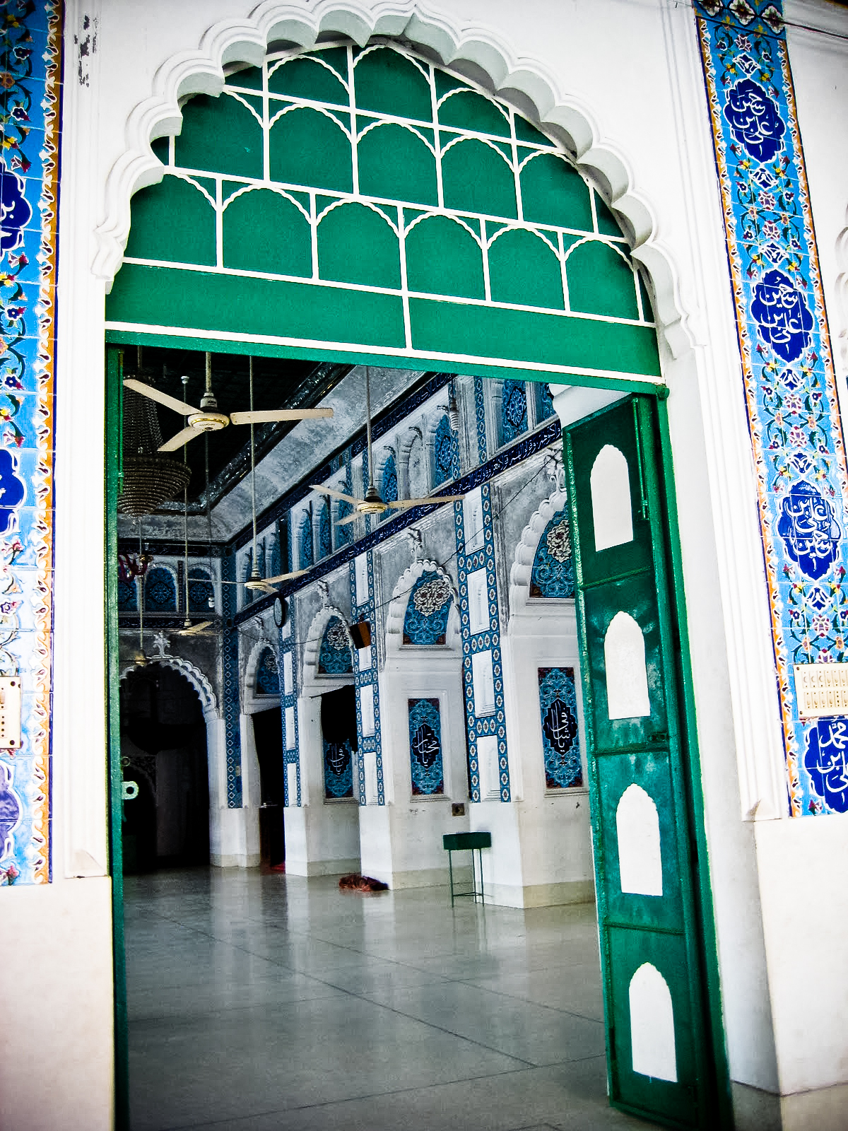 The beautiful and decorated entrance of Hussaini Dalan.